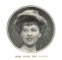 Photograph of Olive Rae (1878-1933) - 'From the Concert-room', The Tatler, No. 25, 18 December 1901, p. 538